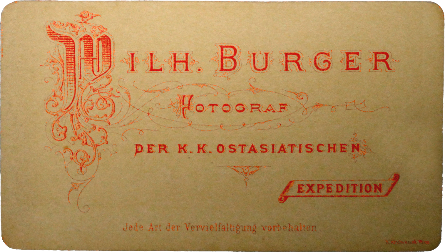 CDV verso with the Wilhelm Burger's info